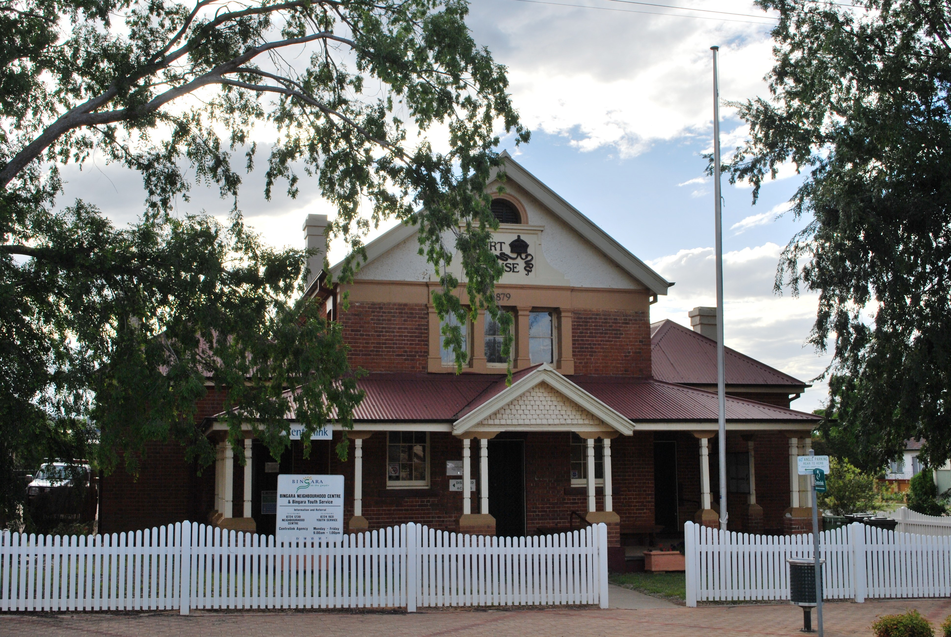 Court house at Bingara, New South Wales